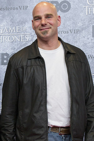 Seattle Sounders goalkeeper Marcus Hahnemann. Photos by